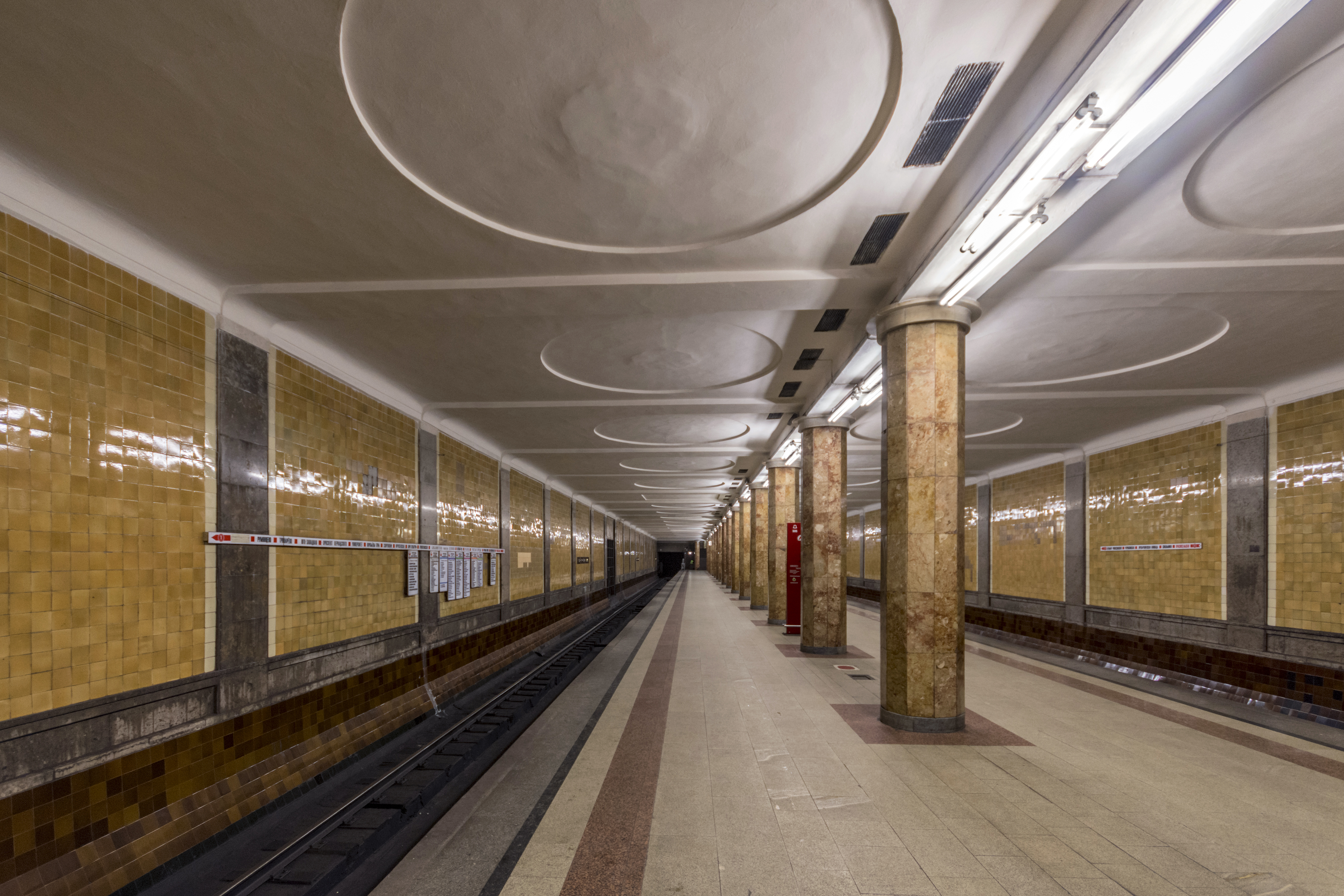 Krasnoselskaya Station of Moscow Subway